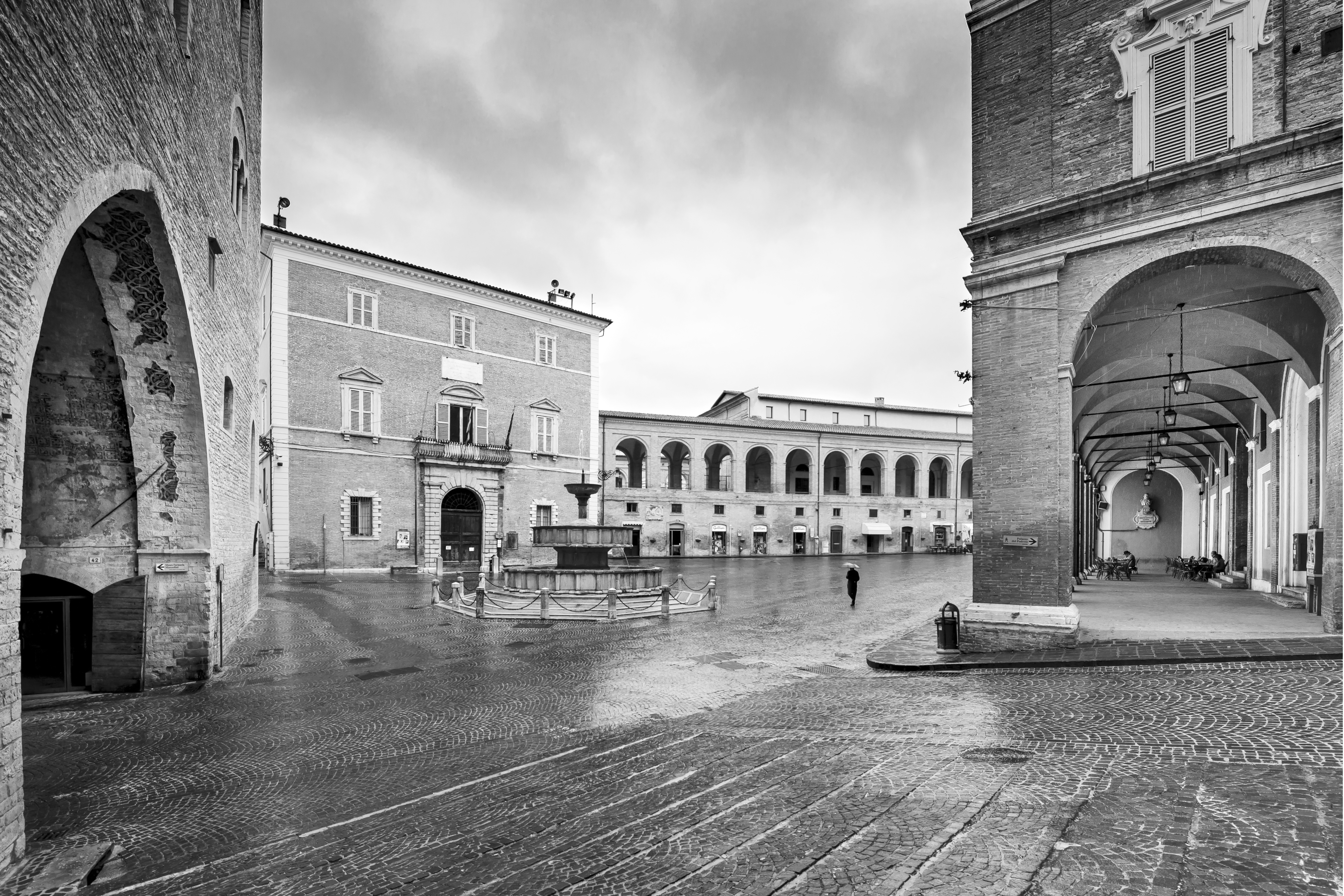 This is a photo of a monument which is part of cultural heritage of Italy.